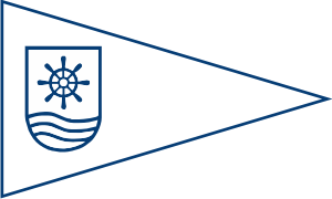 Yacht Club Ancón burgee